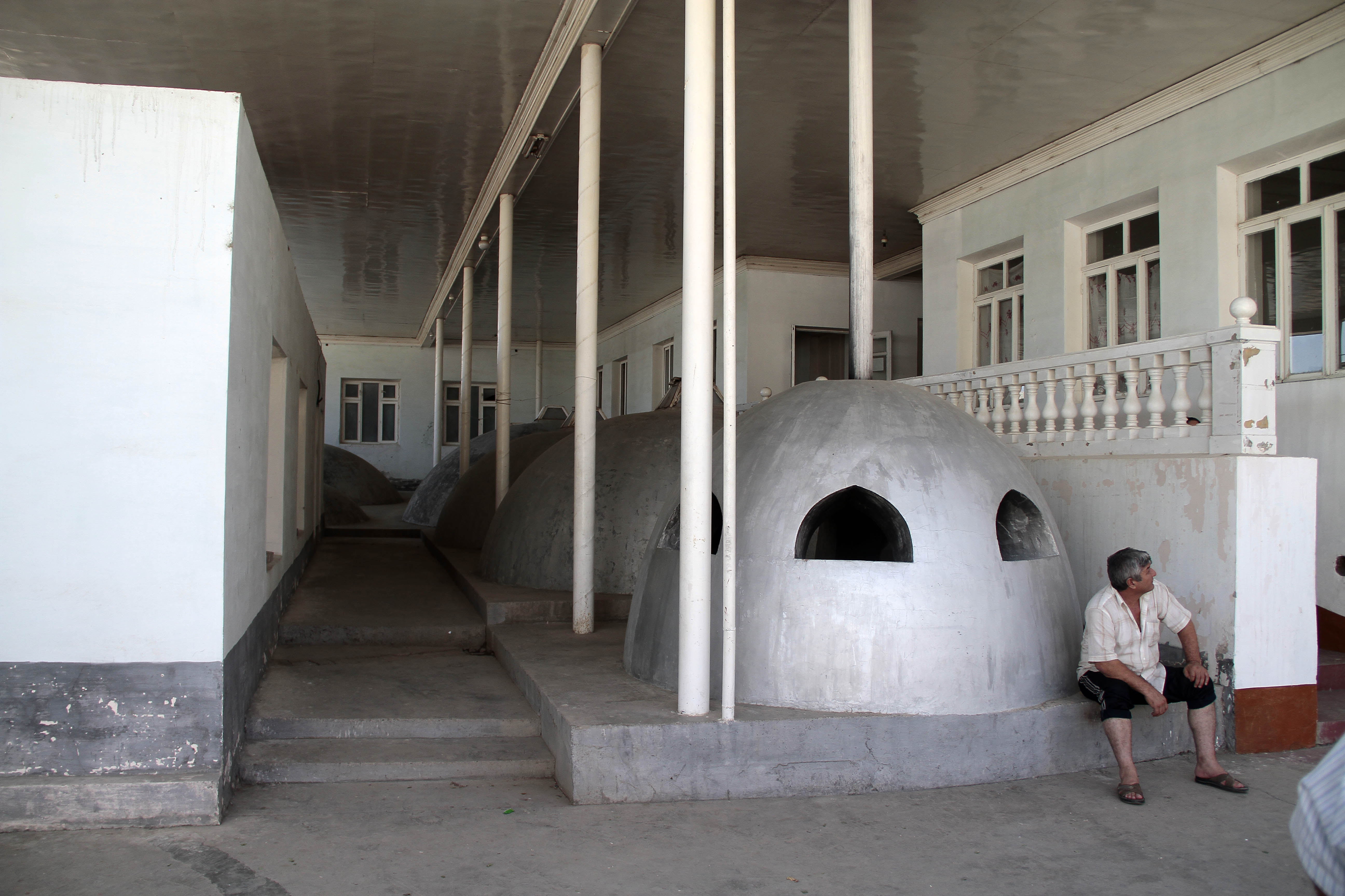 Jewish bathhouse in Samarkand